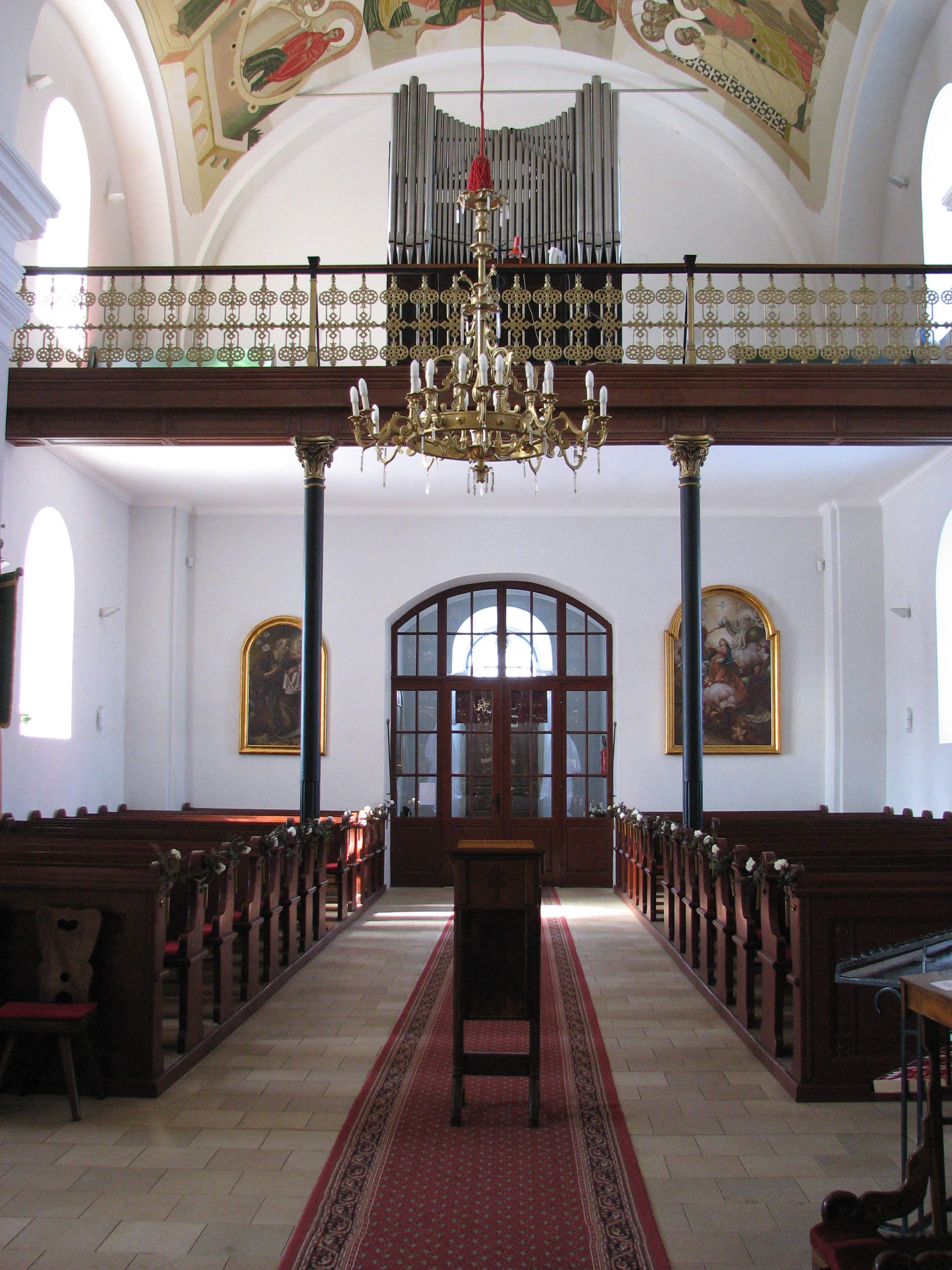 The interior of the Greek Catholic Cathedral of Hajdúdorog, Hungary. The small organ of the cathedral can be seen on the choir.